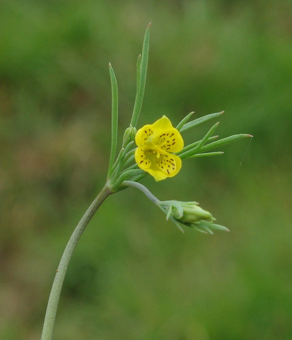 Hypecoum pendulum in Baku, Azerbaijan